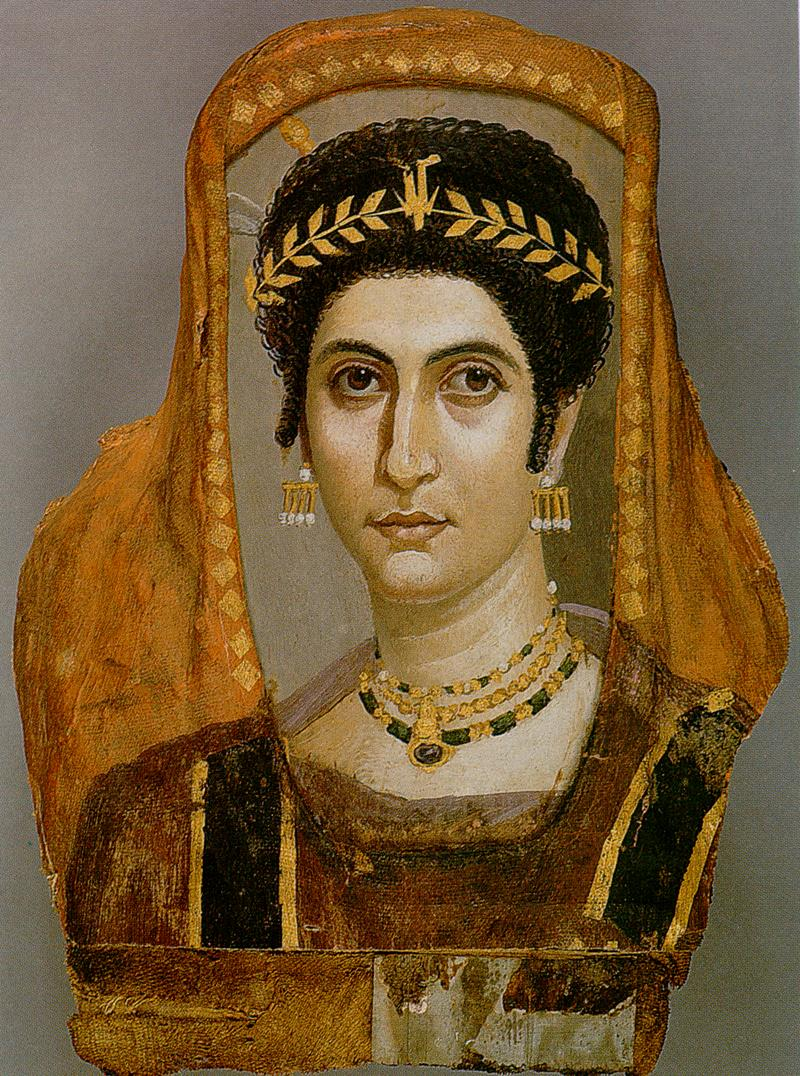 An encaustic Fayum mummy portrait of bejewelled woman with part of linen wrappings, probably from Ankyronopolis (El Hibeh, Egypt); Romano-Egyptian, 100-110 CE. The woman's name, Isidora ("gifts of Isis"), is inscribed in Greek on the side of the wrappings, and the gold hair ornament and quantity of expensive jewelry indicate her high social standing. It is now in the Getty Villa of Malibu, California. Fayum mummy portrait.